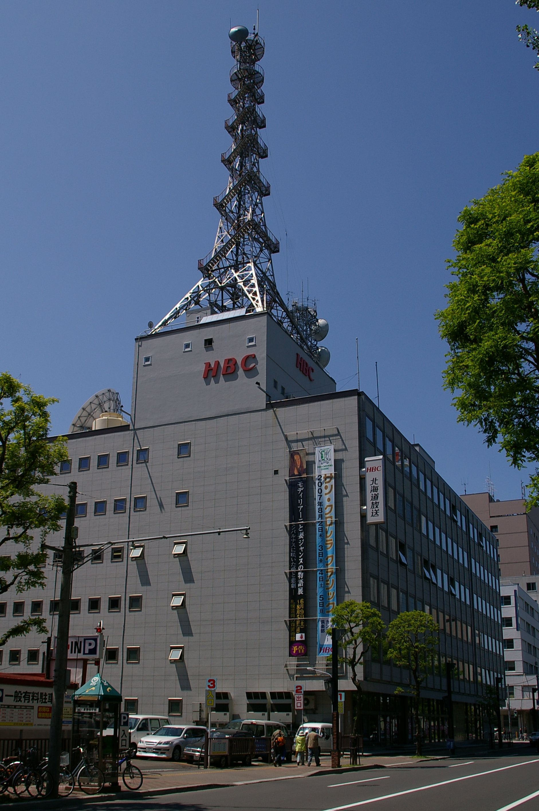 Photograph of HBC Building, headquarters of Hokkaido Broadcasting Company, in Chuo-ku, Sapporo, Hokkaido, Japan.